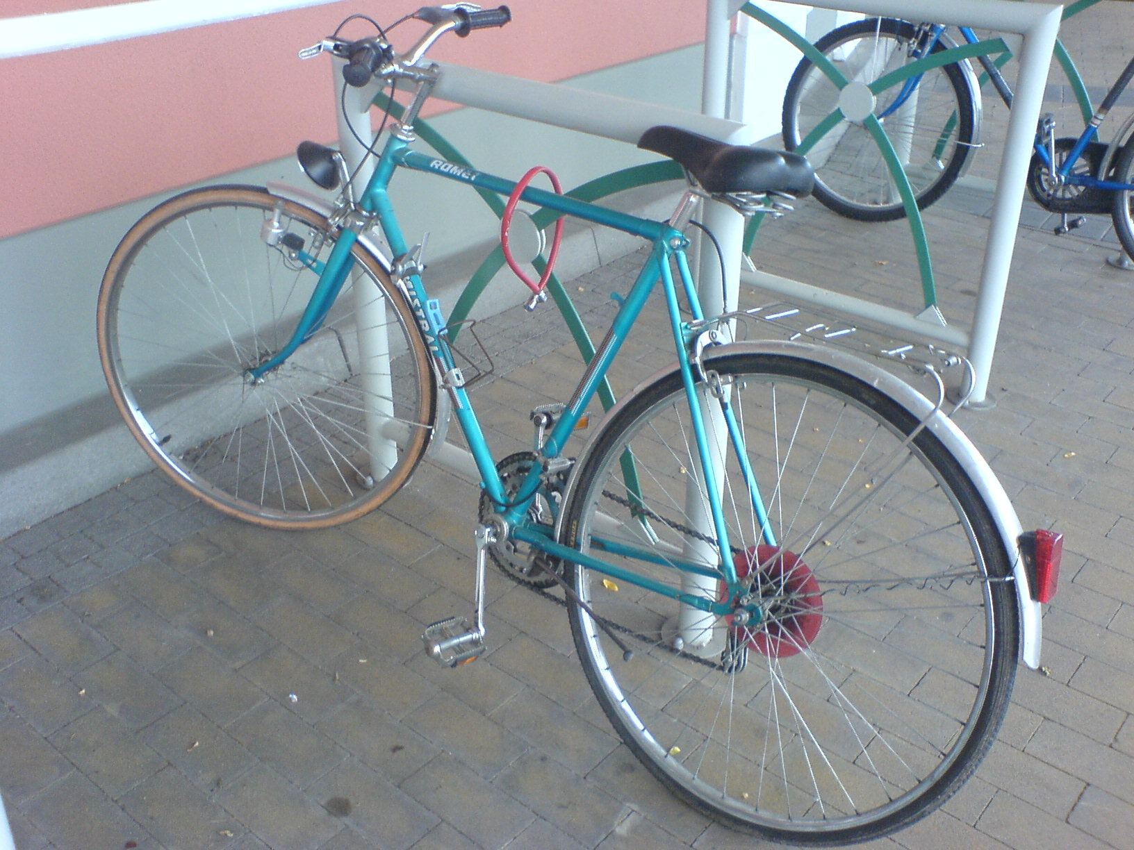 Polish bike Romet Mistral.